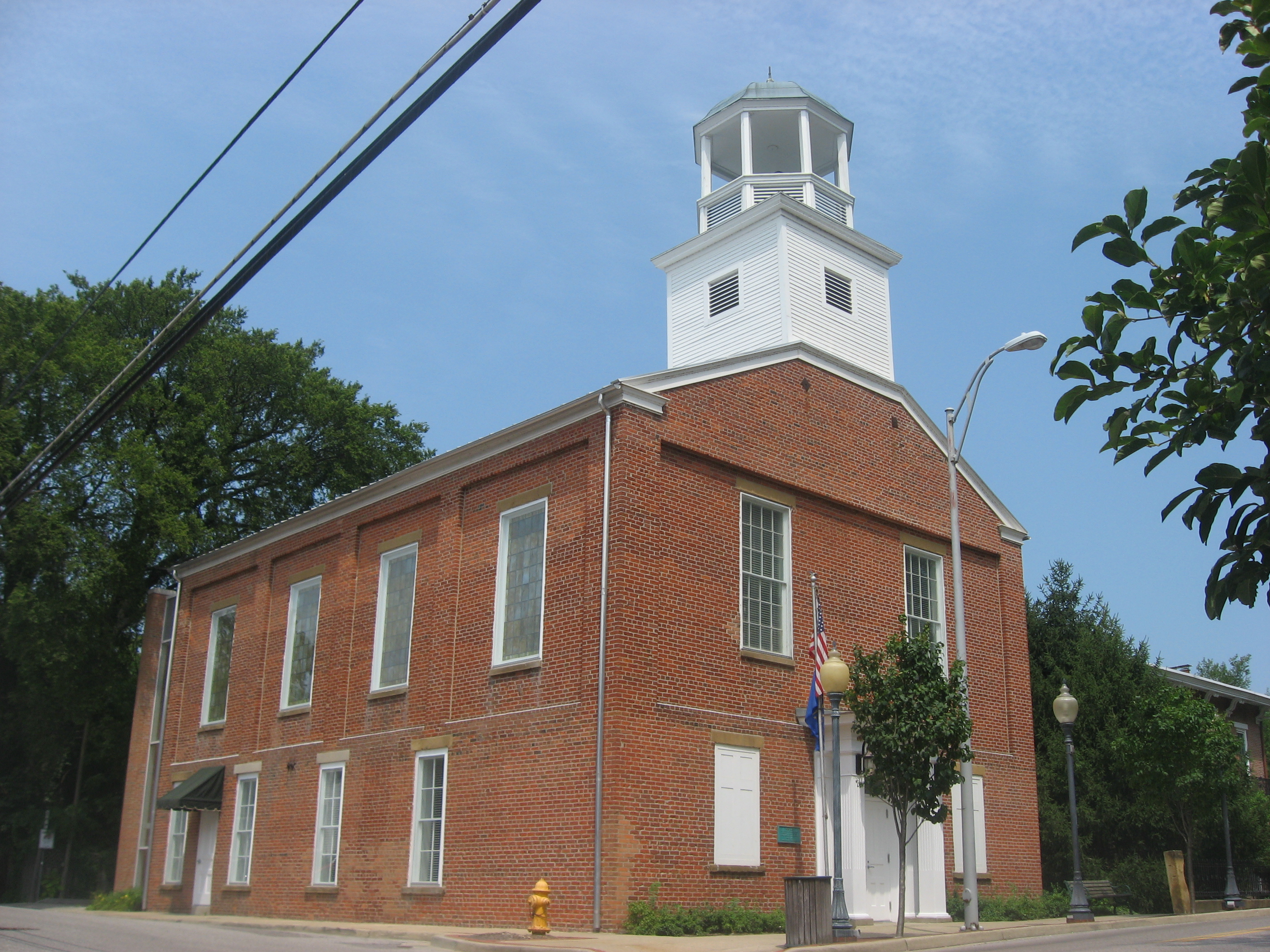 Front and southern side of the Old Newburgh Presbyterian Church, located on the northwestern corner of the junction of State and Main Streets in downtown Newburgh, Indiana, United States. Built in 1851 for a congregation of the Cumberland Presbyterian Church, it is now Newburgh's town hall, and it is listed on the National Register of Historic Places.